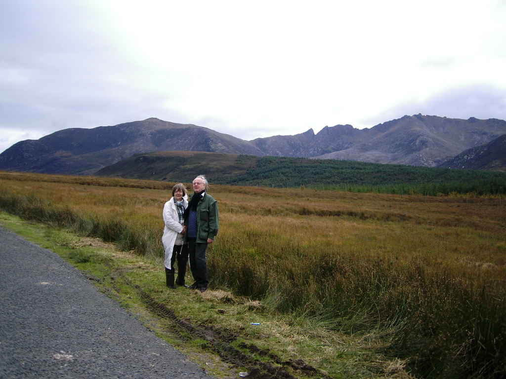 Mum and dad on Arran.